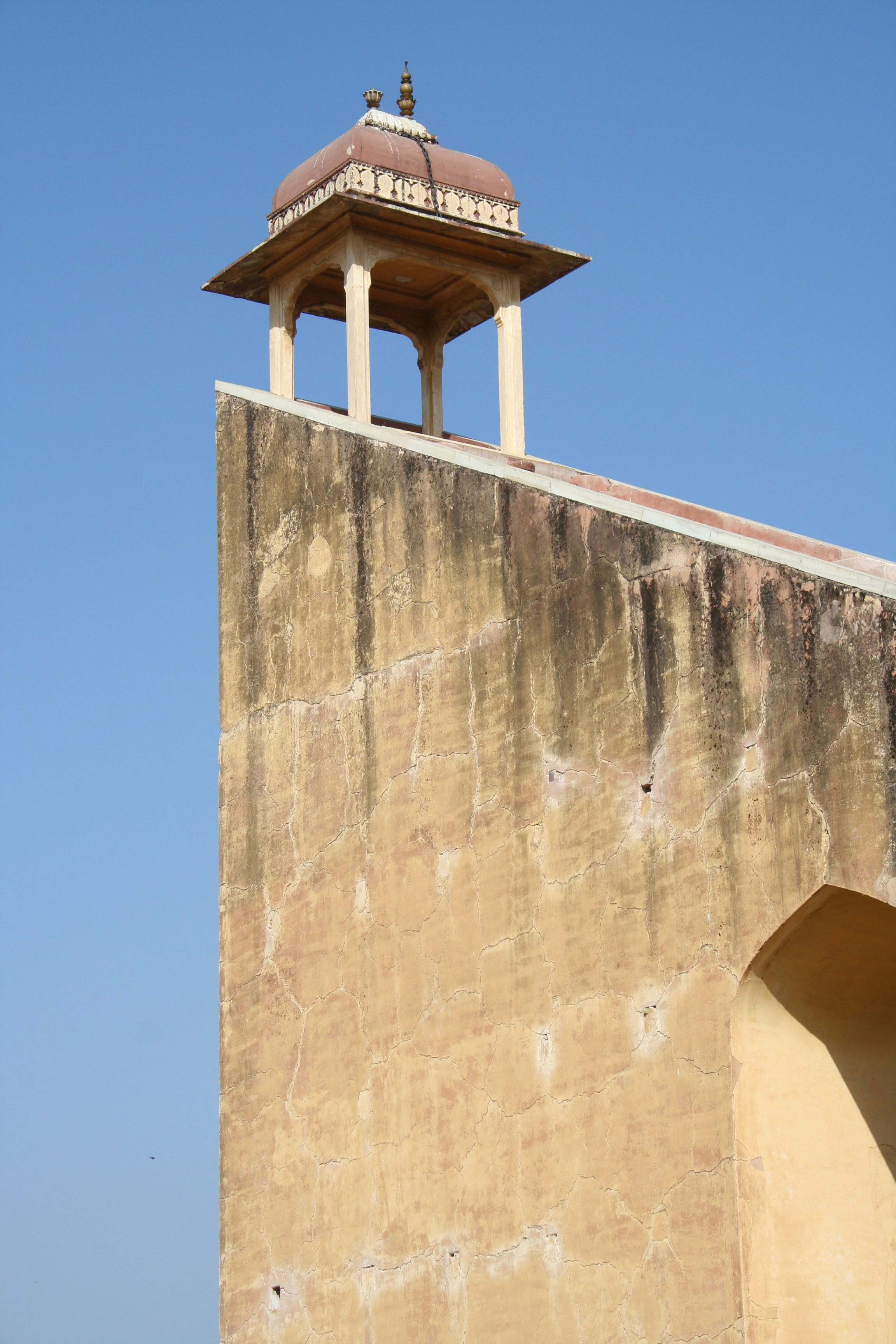 Observation deck at top of giant sundial at Jantar Mantar (astrological observatory) in Jaipur, Rajasthan, India.